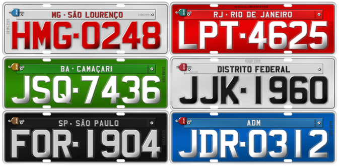 Colors adopted on identification vehicle plates in Brazil.